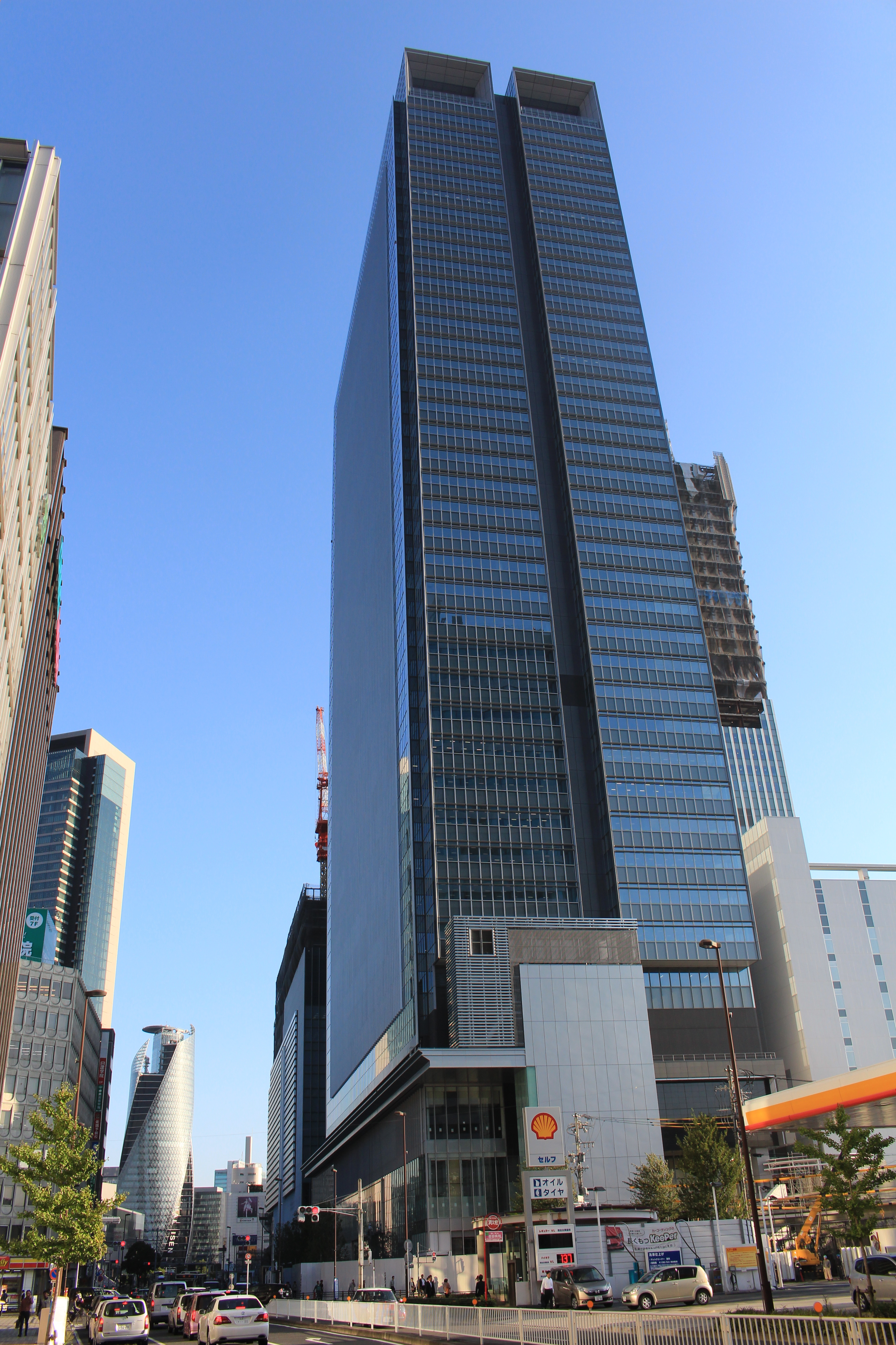 JP Tower Nagoya, in Meieki, Nakamura, Nagoya, Aichi prefecture, Japan.